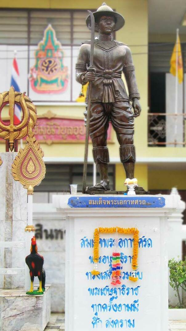 Statue of King Ekathotsarot, Wat Pha Mok, Ang Thong, Thailand.